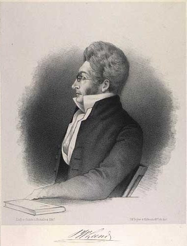 Peter Wilhelm Lund, Danish zoologist. 1801-1880.